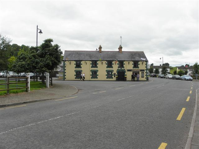 Conors, Three Mile House